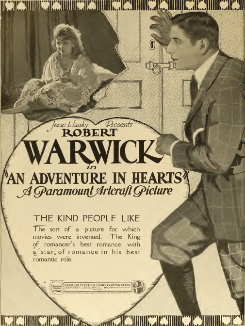 Advertisement with Robert Warwick in An Adventure in Hearts (1919).